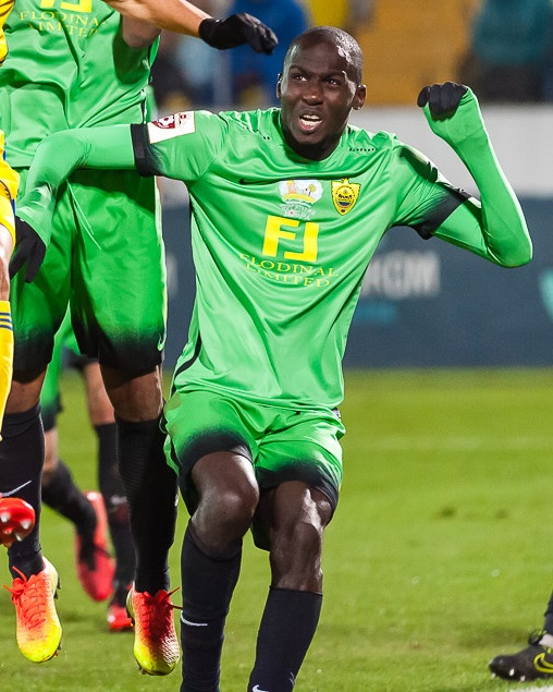 Cédric Yambéré with FC Anzhi Makhachkala in a game against FC Rostov.